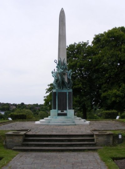 Bromley War Memorial at Martin's Hill, near intersection of Glassmill Lane and Church Road, in Bromley, Greater London, England. Erected 1922, sculptor Sydney March (d. 1968).